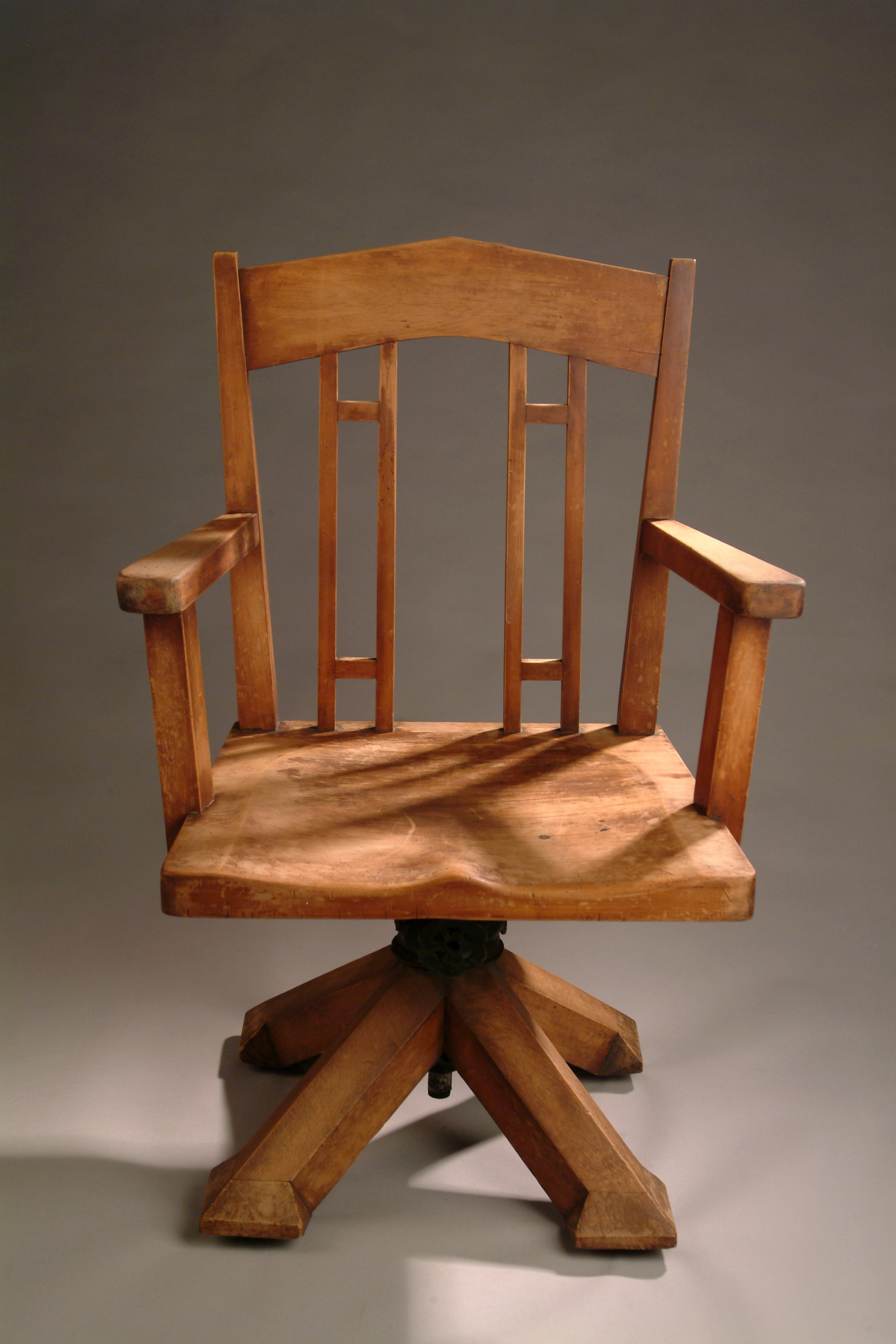 Office armchair on swivel base